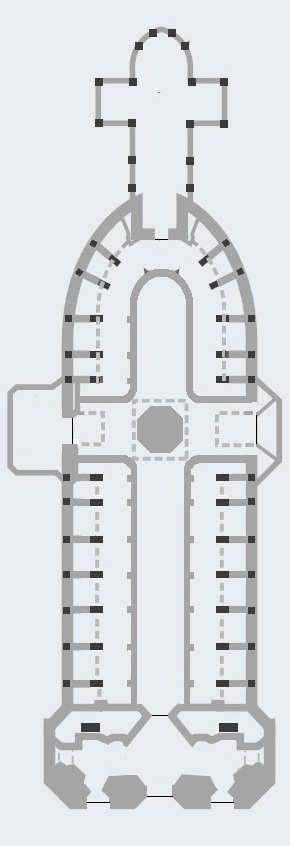 National Vote Basilica (Quito), architectural plan.